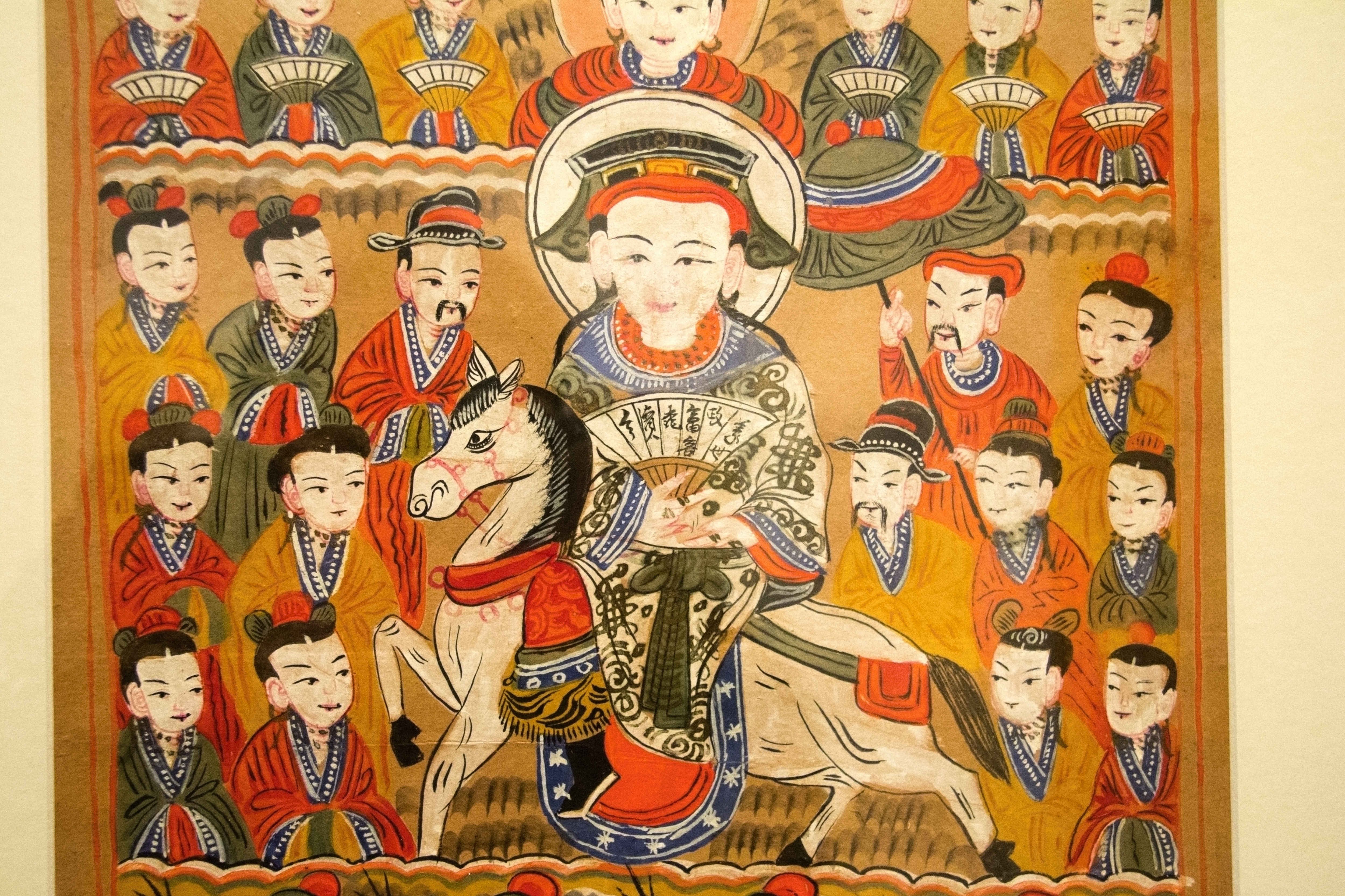 Deities of the Taoist pantheon. Northern Vietnam, 1945. NG Vm 5817. Full view